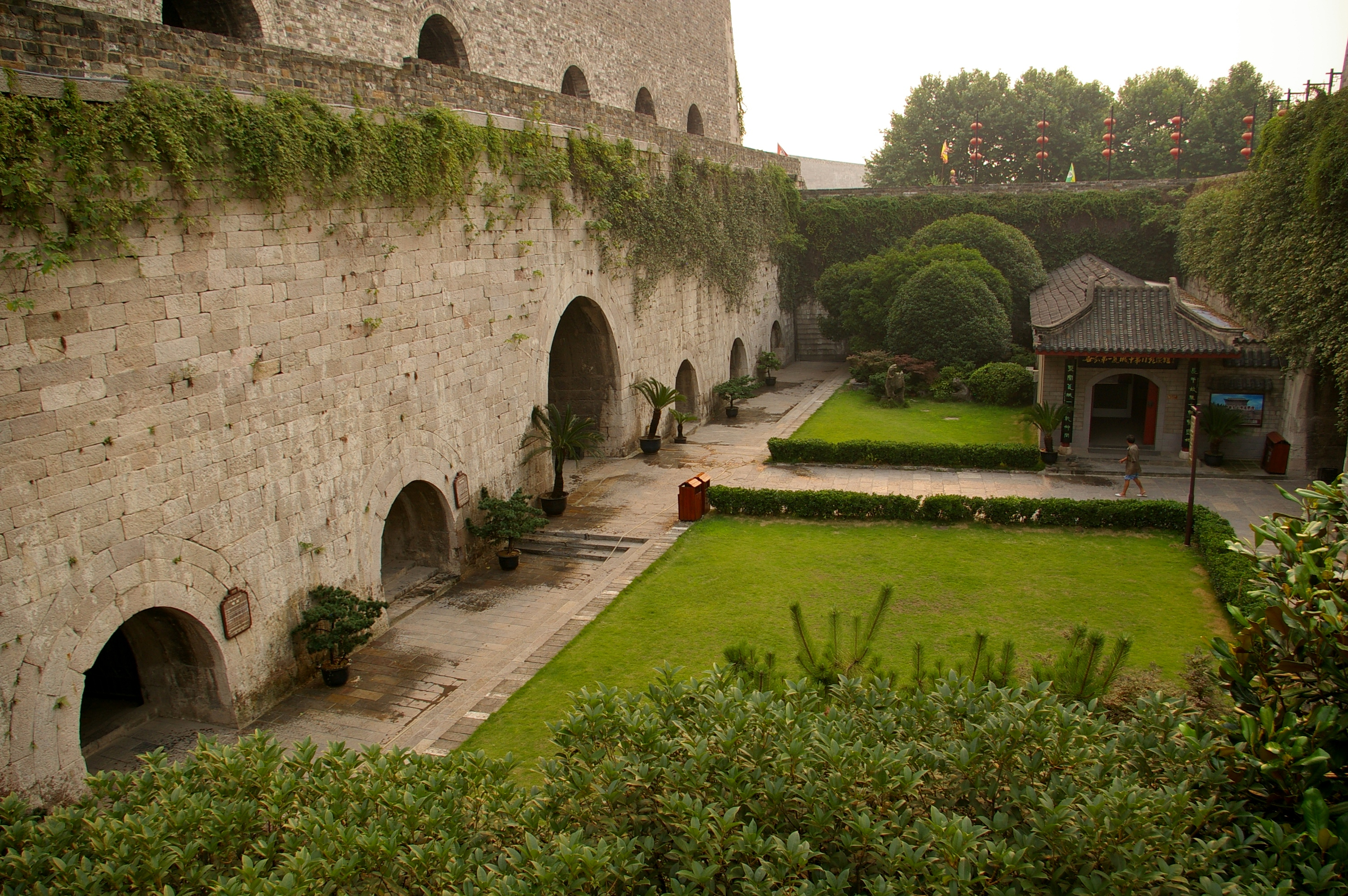 Zhonghua Gate in Nanjing